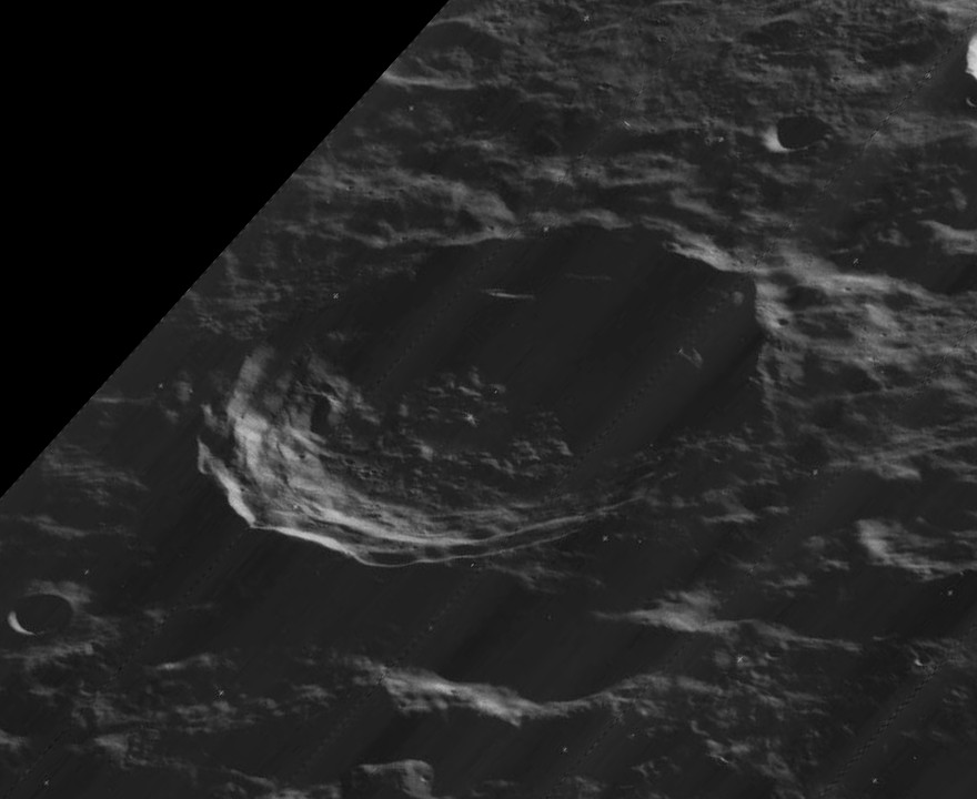 Oblique view of Lucretius crater, on the far side of the moon.